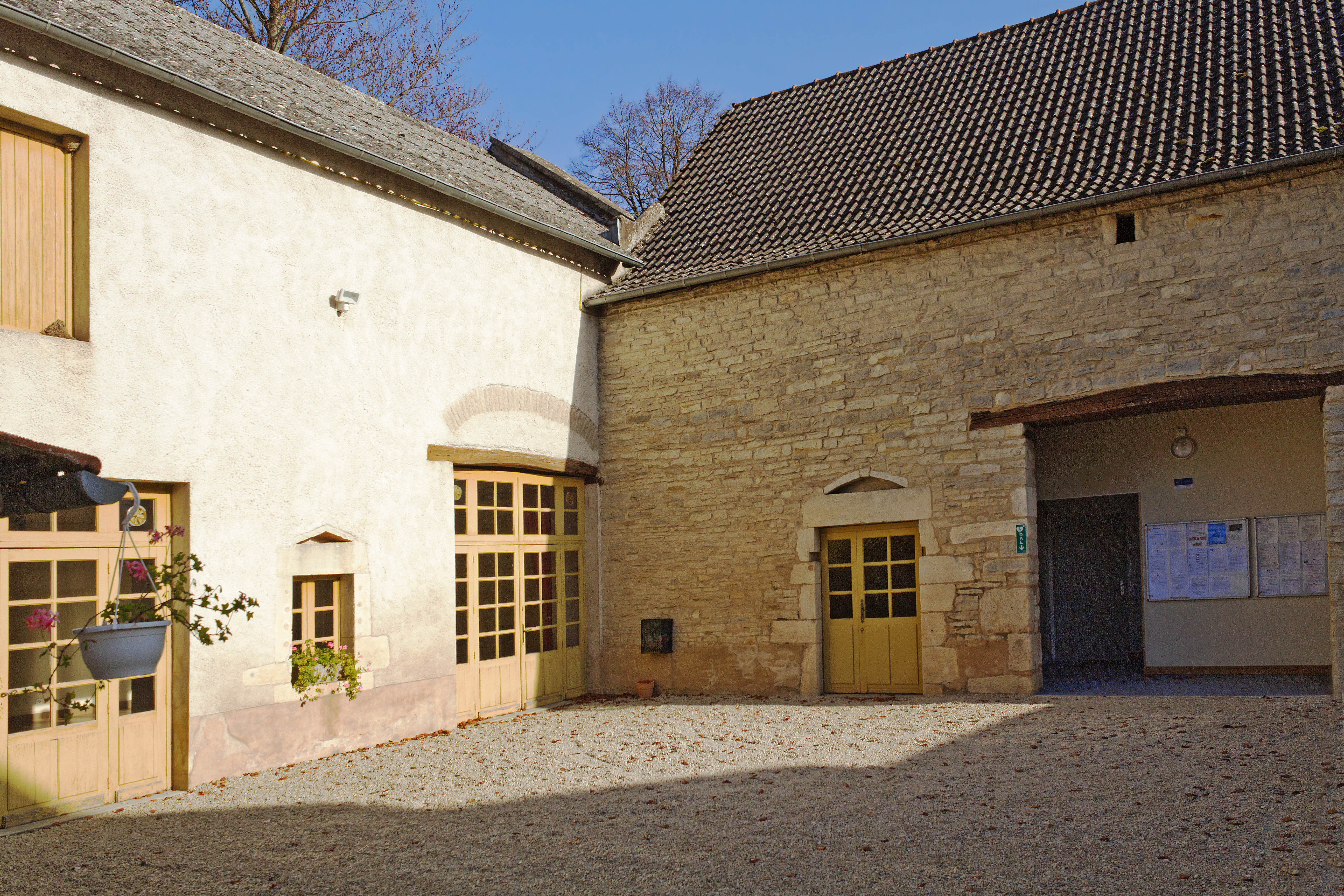 Townhall of Villecomte